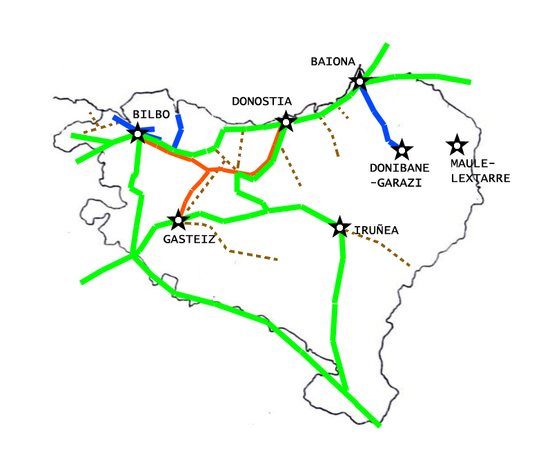 Map showing the railway lines in the Basque Country